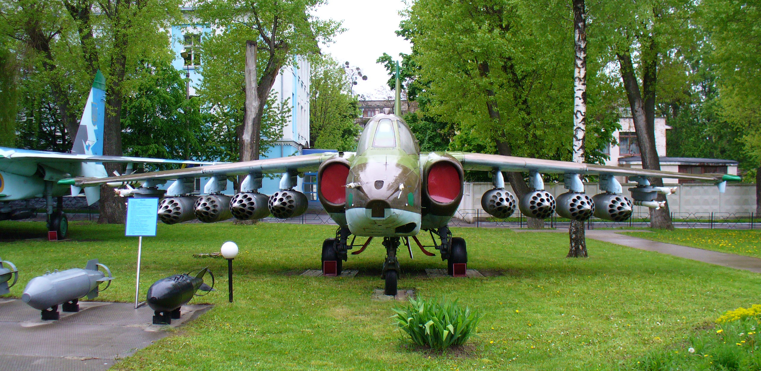 The Sukhoi Su-25 is a Soviet Union jet aircraft. NATO reporting name "Frogfoot". Ukrainian Air Force Museum in Vinnitsa.